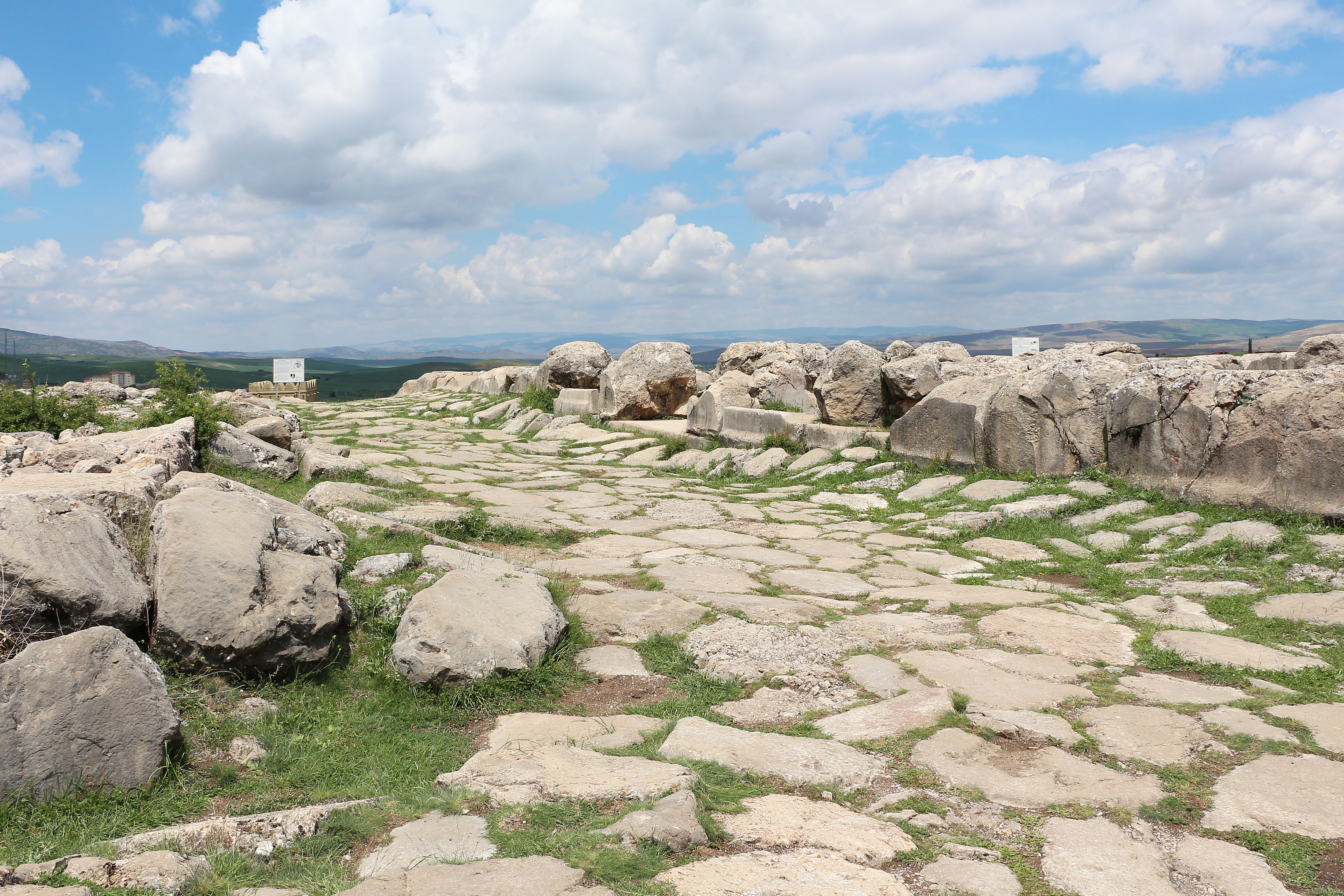 Lower City of Hattusa, Turkey